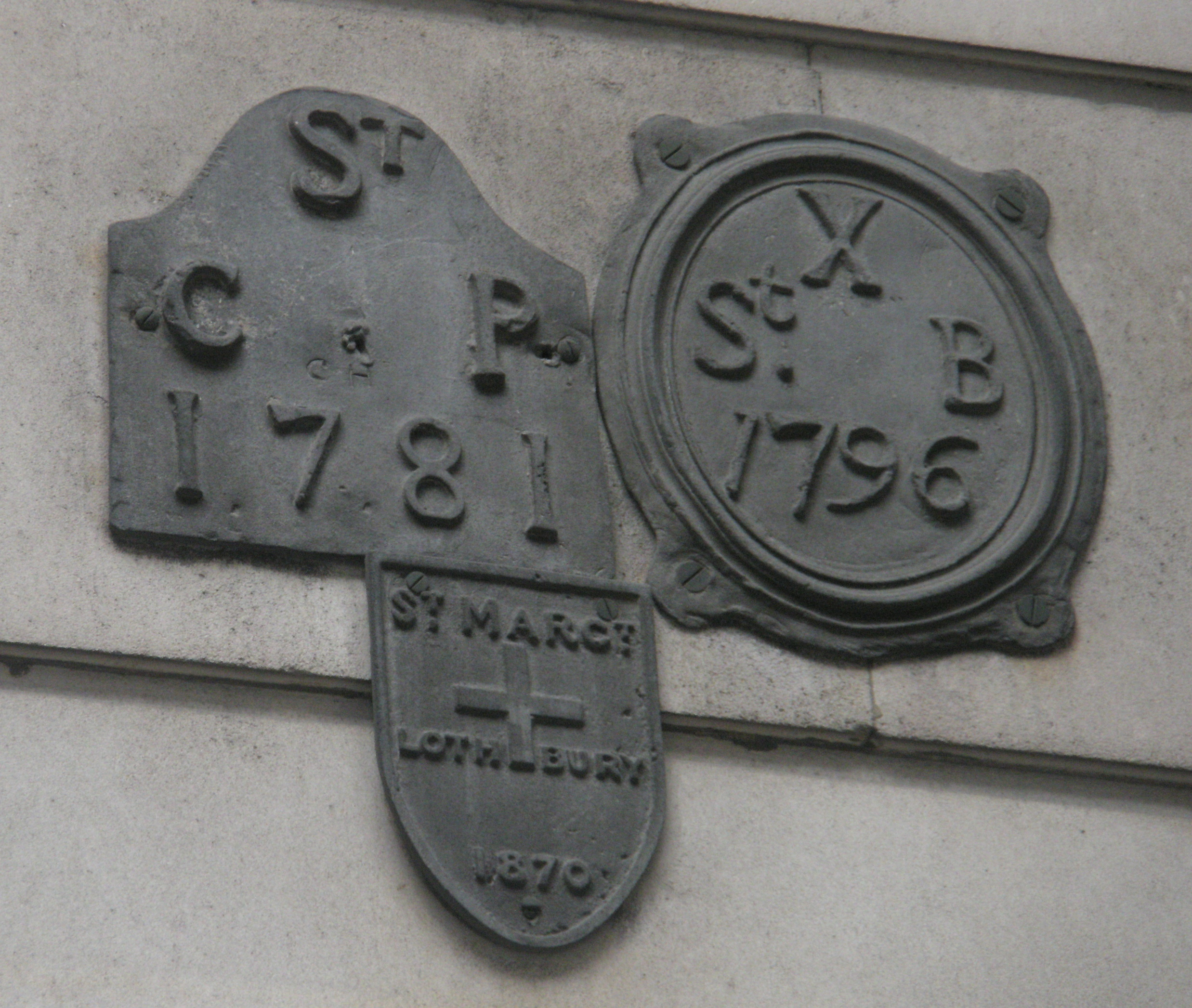 Parish bench marks on front wall of Bank of England